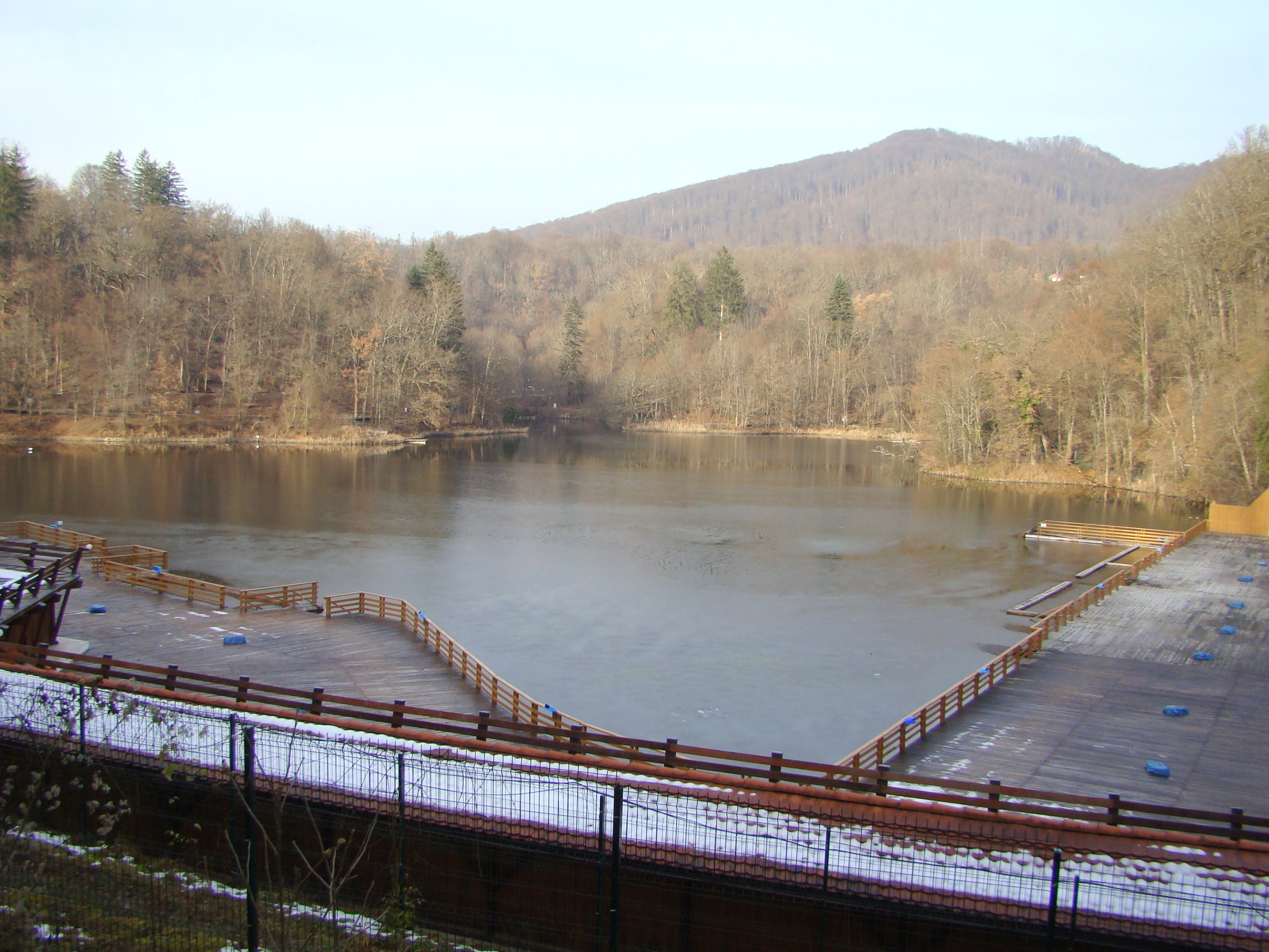 Lake Ursu Natural Reserve